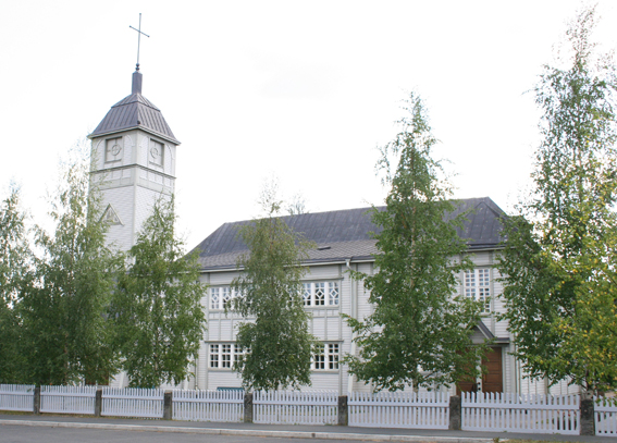 Ypäjä Church in Ypäjä, Finland. Built in 1901–1902. Architects: Henrik Helin and Aleksander Nyström.